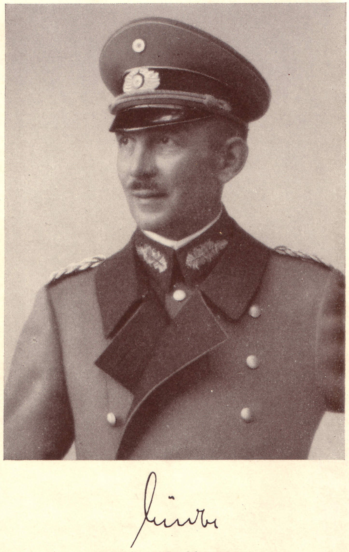 major general Erich Lüdke